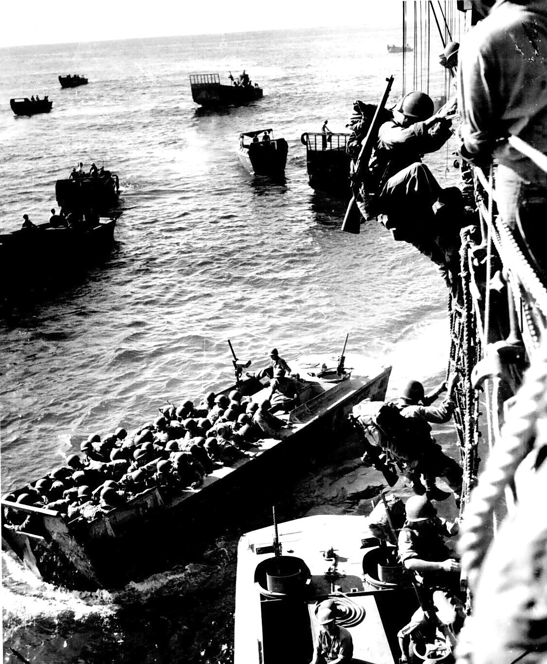 General notes: Use War and Conflict Number 1164 when ordering a reproduction or requesting information about this image.